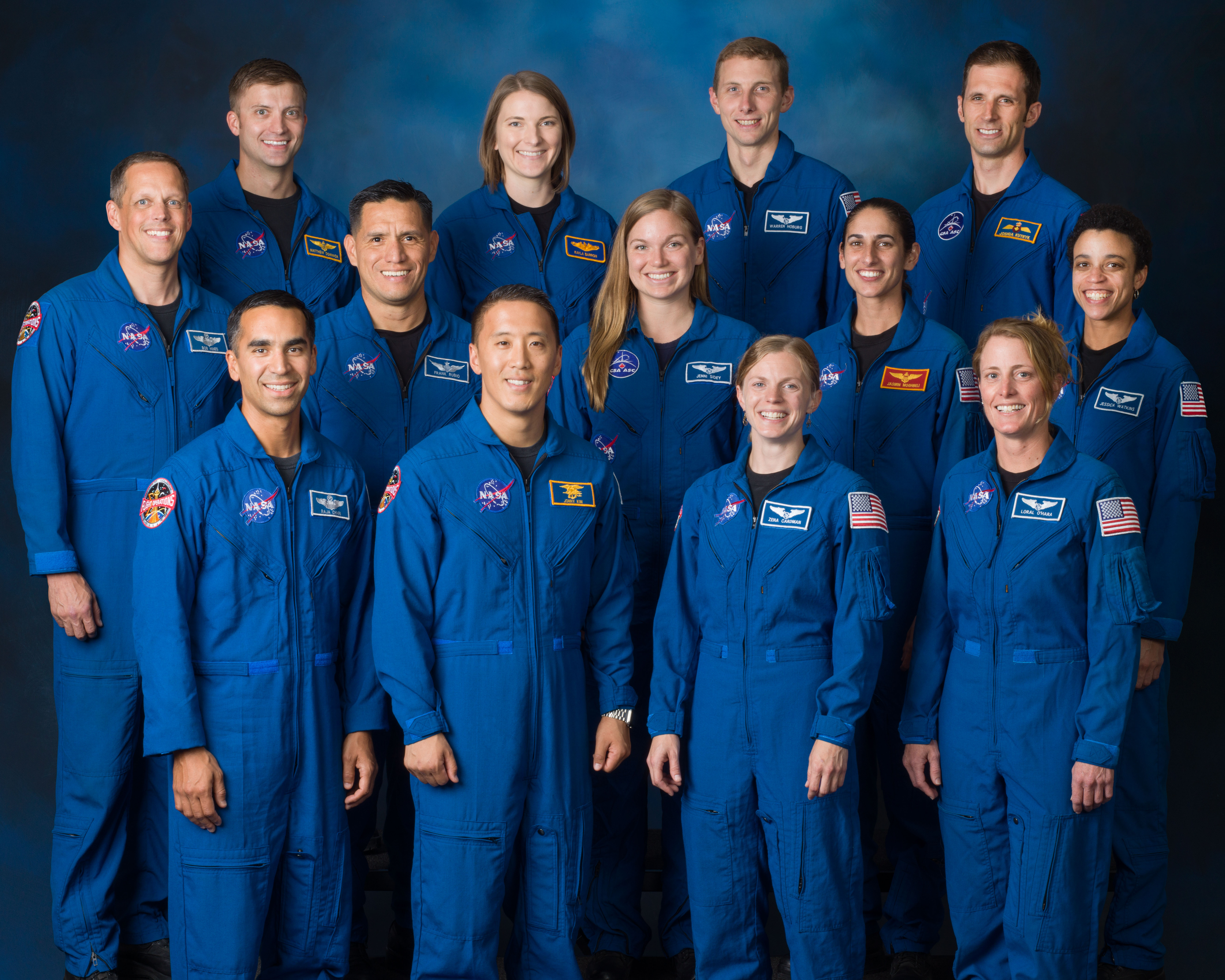 The members of the 2017 NASA Astronaut Class are (from top left) Matthew Dominick, Kayla Barron, Warren Hoburg, Josh Kutryk, Bob Hines, Frank Rubio, Jenny Sidey, Jasmin Moghbeli, Jessica Watkins, Raja Chari, Jonny Kim, Zena Cardman, and Loral O' Hara.